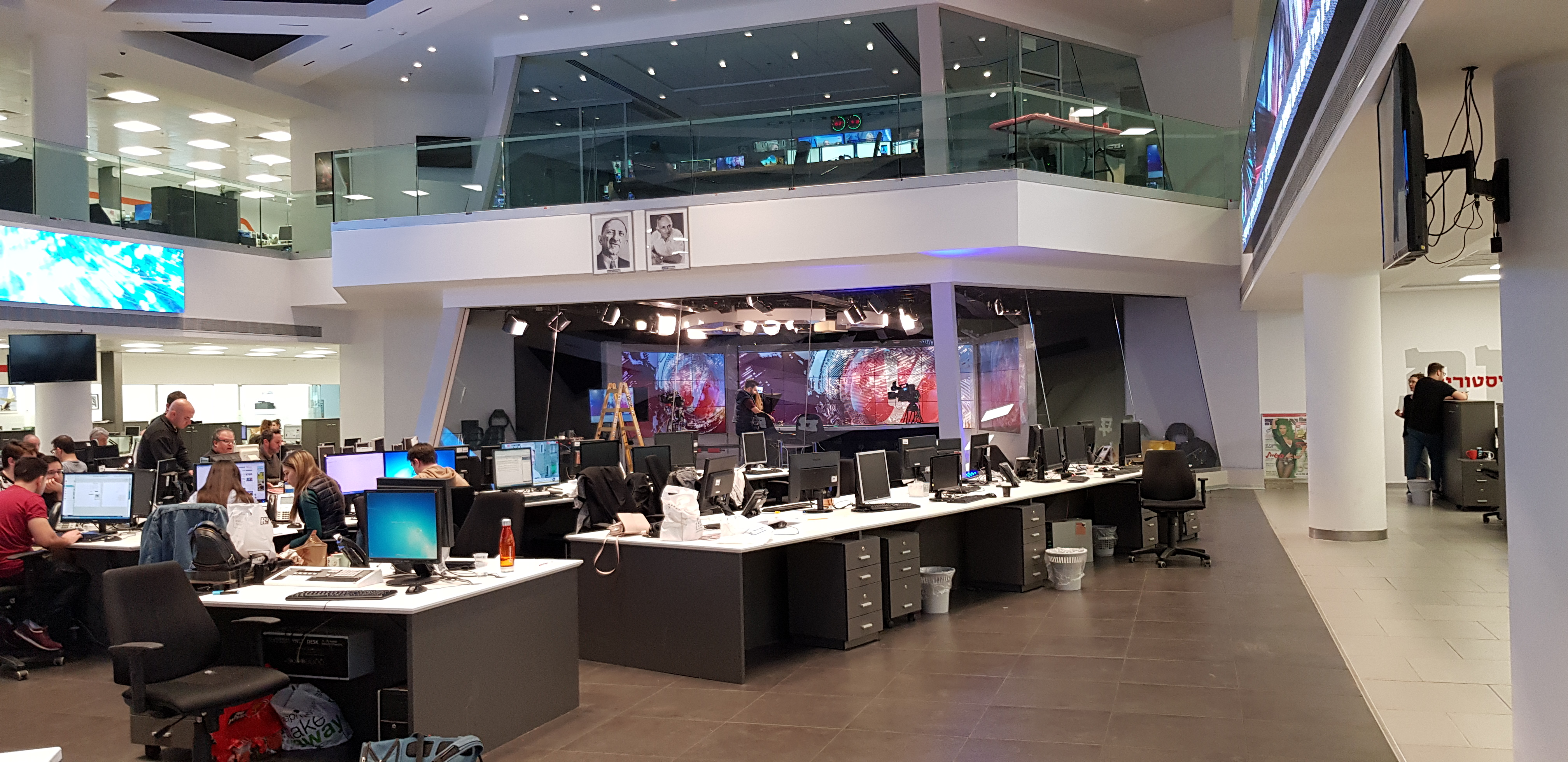 ynet broadcasting studio